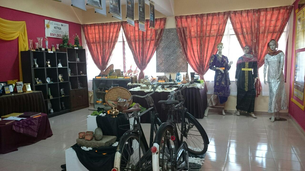 lobi galeri